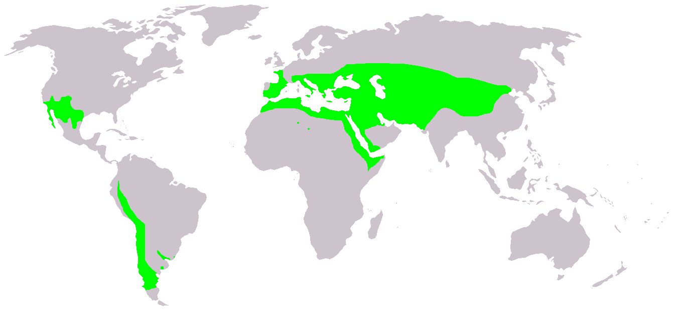 A range map of the genus Ephedra in the Ephedraceae family. Order Ephedrales Family Ephedraceae Genus Ephedra